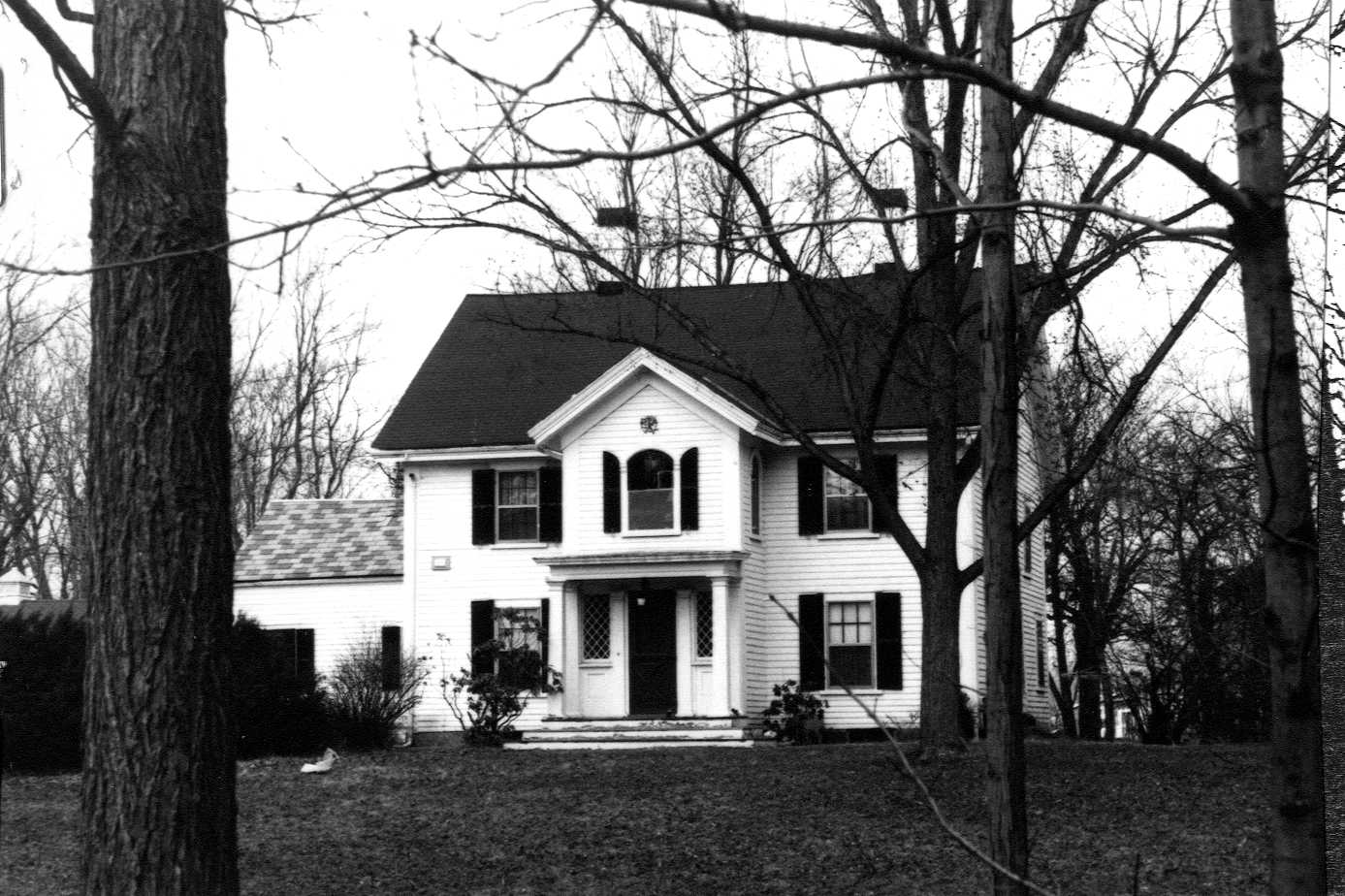 Williams-Linscott House, Stoneham, Massachusetts. Demolished in 2004.